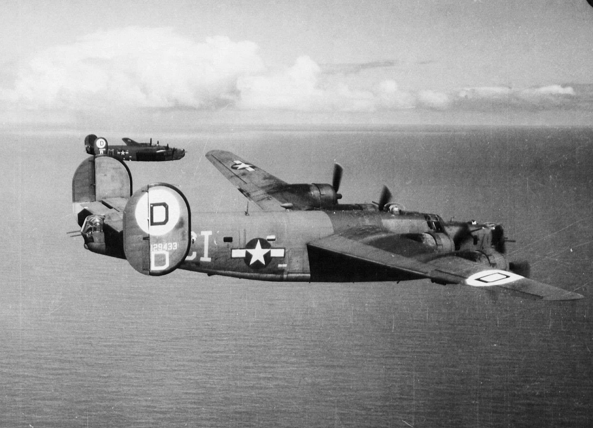 Consolidated B-24H-15-CF Liberator 41-29433 576th Bomb Squadron, 392nd Bomb Group, 8th Air Force